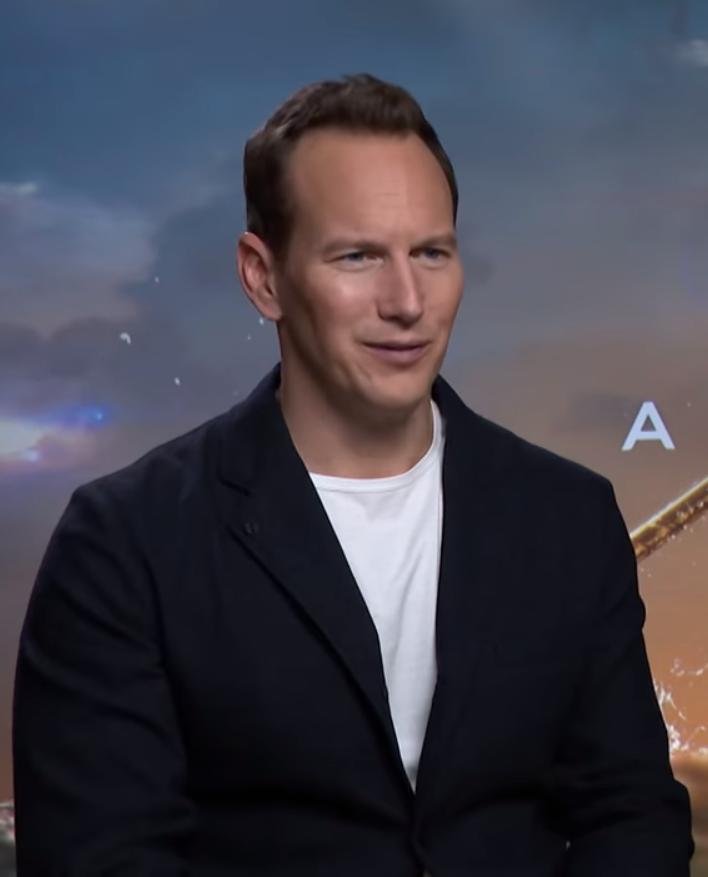 AQUAMAN stars Jason Momoa, Amber Heard, Patrick Wilson and director James Wan reveal the moments that made them LOL behind the scenes, what it’s really like to ride a fish and how if Jason Momoa returns to Game Of Throne for Season 8, Khal Drogo would make both Daenerys AND Jon Snow his wives!